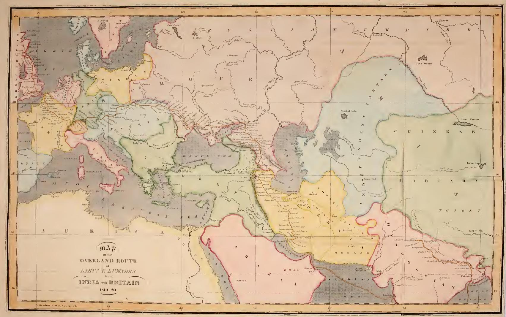 Map of overland route from India to Britain.